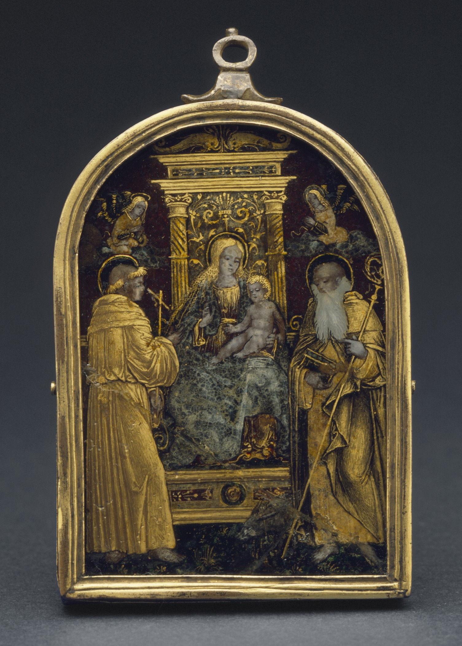 Northern Italy, circa 1480 Sculpture Glass, paint, gilt, copper, metal foil Gift of the 1987 Collectors Committee (M.87.140) Decorative Arts and Design